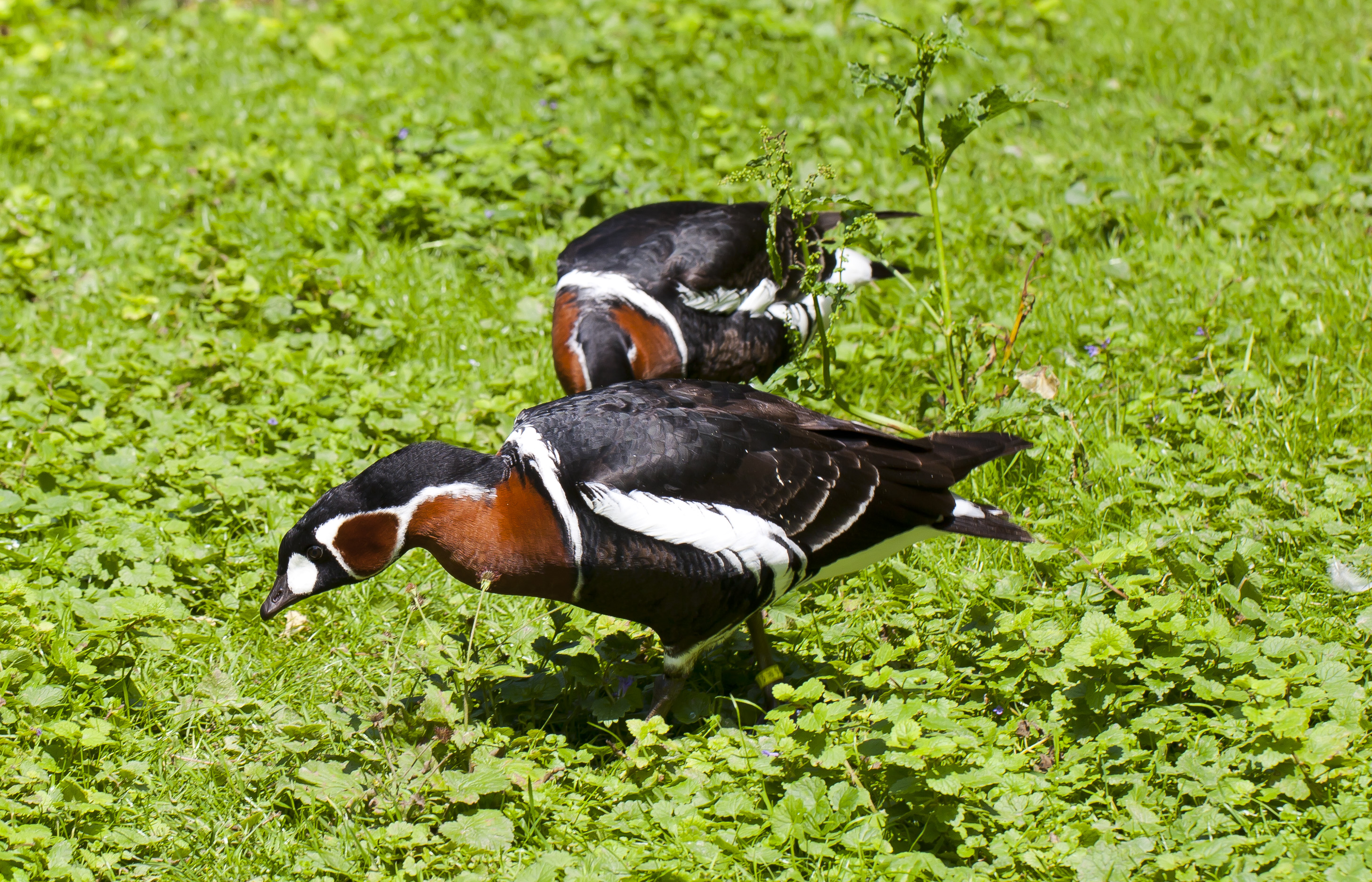 Red-breasted Goose (Branta ruficollis), Tierpark Hellabrunn, Munich, Germany